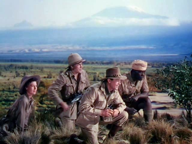 Screenshot from the film The Snows of Kilimanjaro